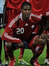 Patrice Bernier with Canada national team vs. Ukraine in 2010